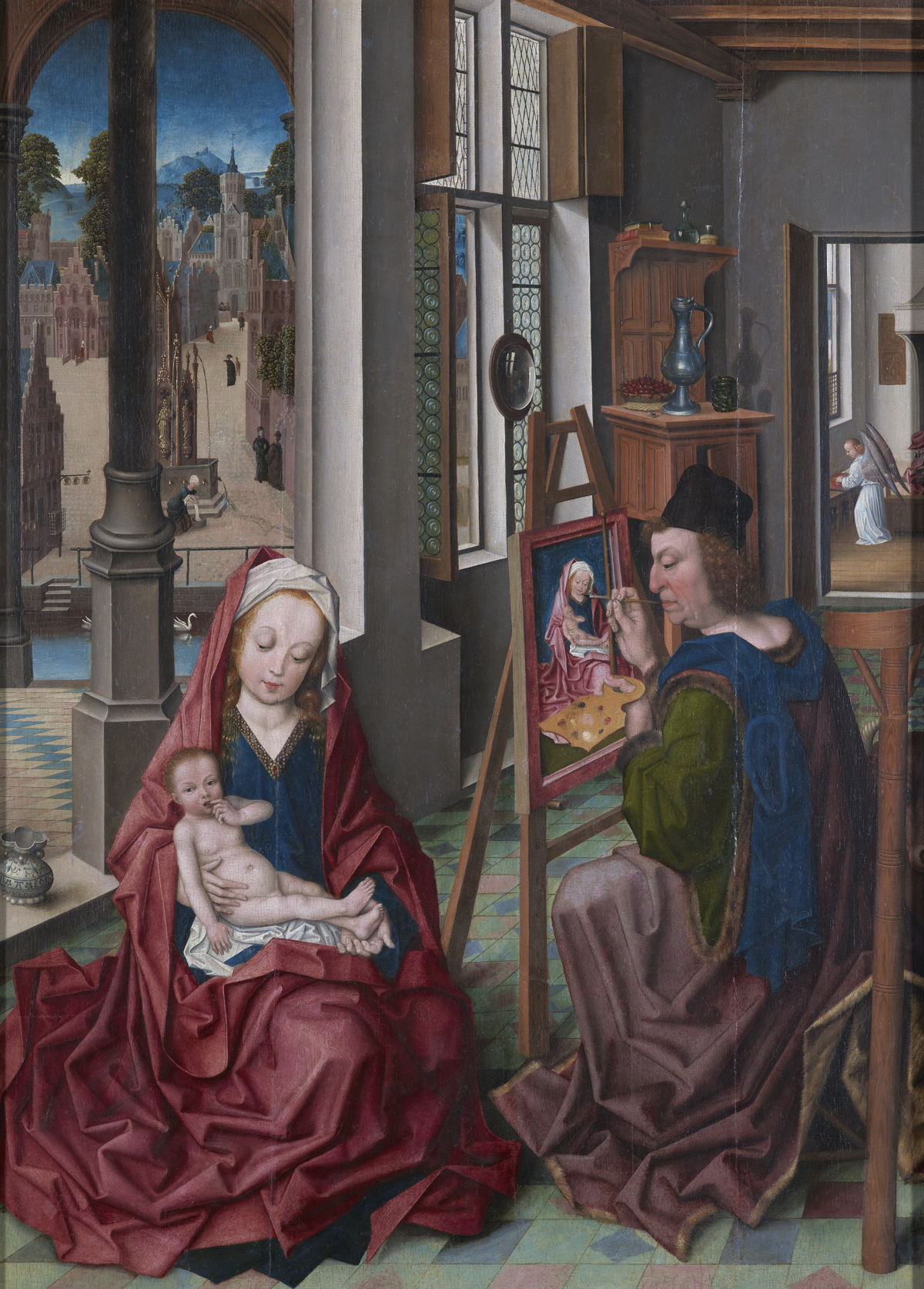 Luke the Evangelist painting the Madonna oil on canvas 113 x 82 cm 1480-1485